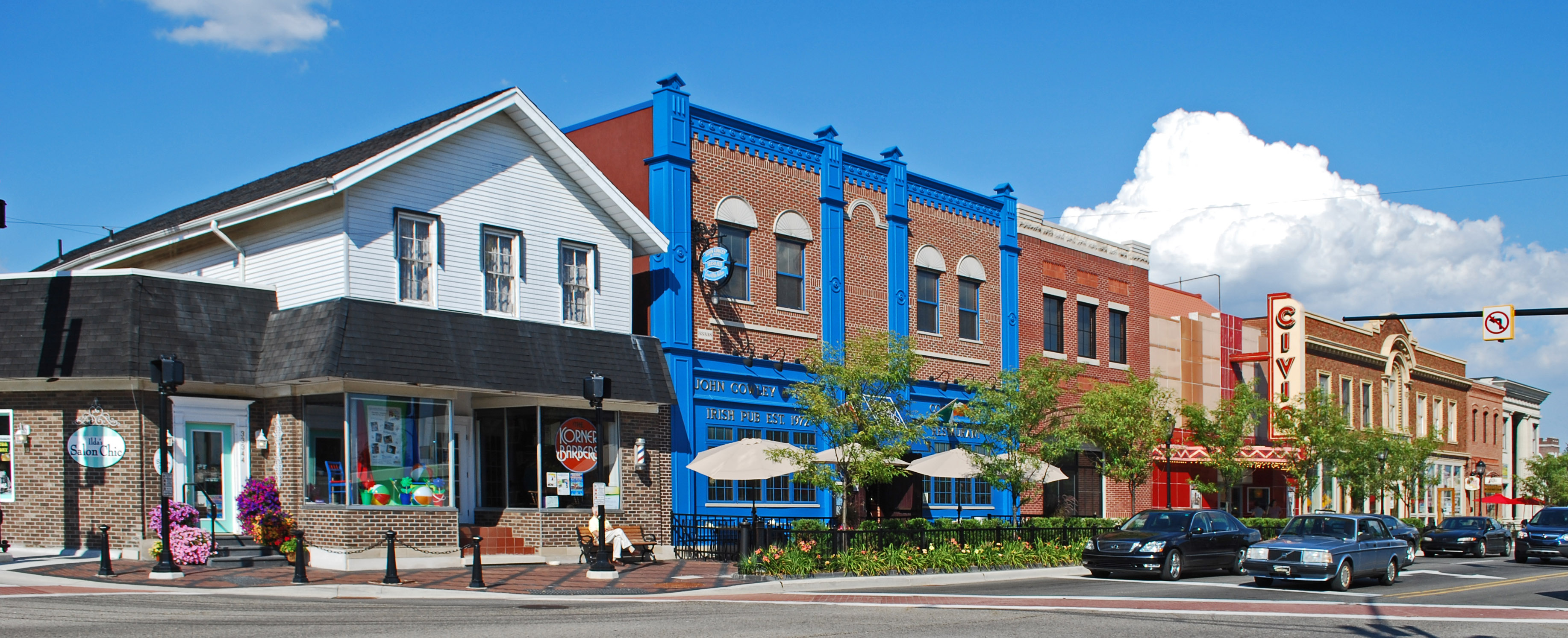 Commercial Buildings on Grand River, Farmington Historic District, Farmington MI